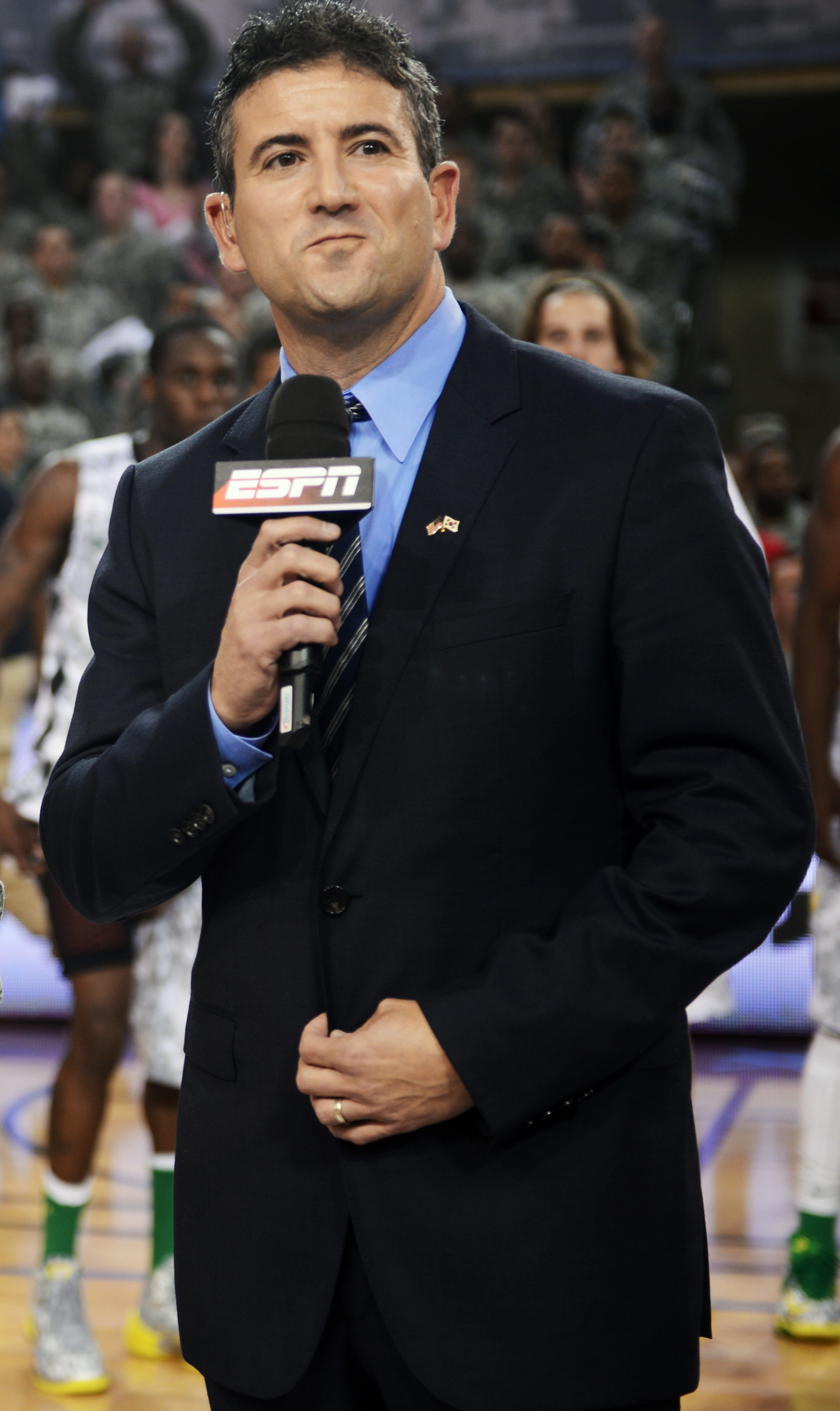 Andy Katz of ESPN with trophy or the Armed Forces Classic basketball game. U.S. Army photos by Cpl. Ma Jae Sang